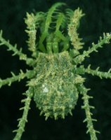 A photograph of undescribed species of Lomanius harvestman (Podoctidae: Erecananinae). Preserved specimen originally captured in the Philippines.